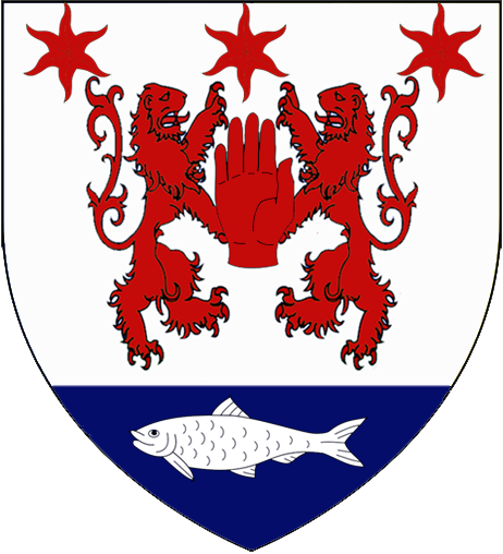 Coat of arms of the O'Neill.